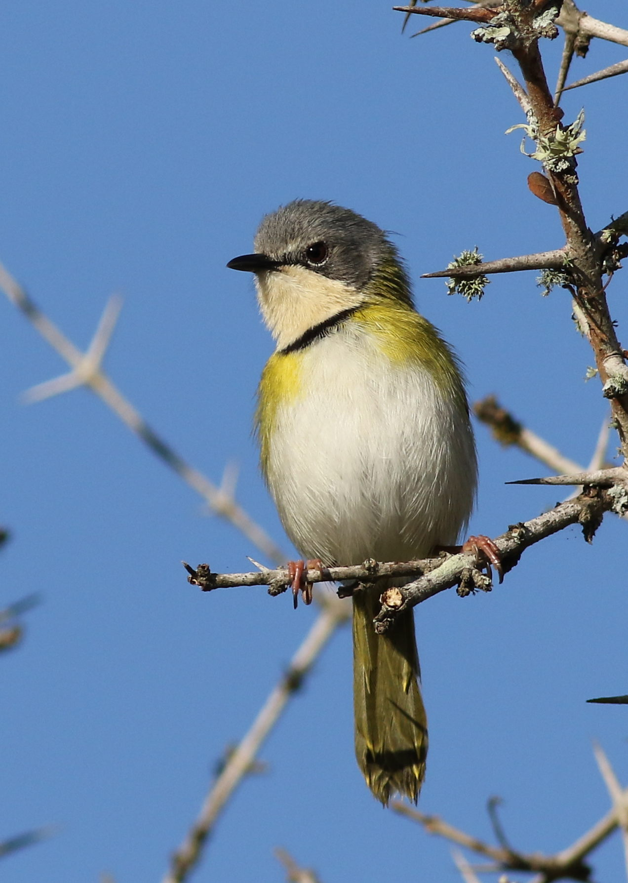 They are just lovely little things.